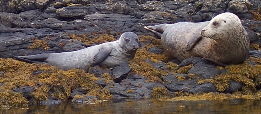 Common Seal and pup, on the Isle of Skye, near Dunvegan Castle